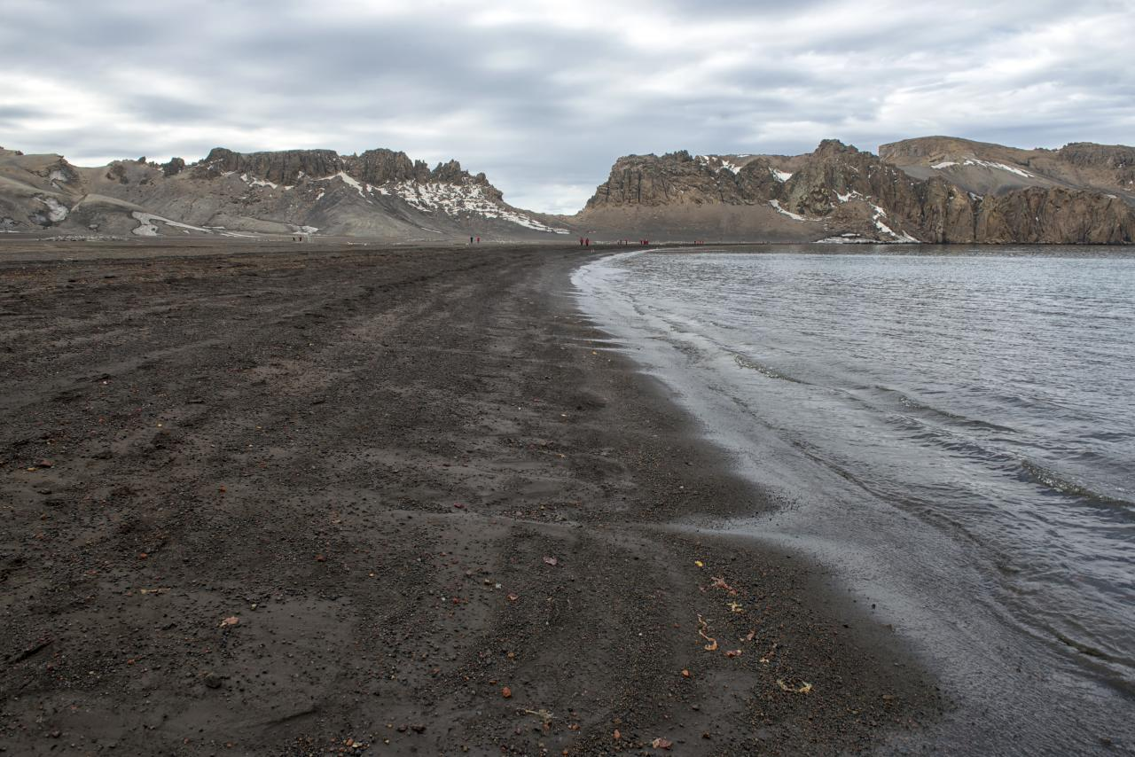 Deception Island, Antarctica